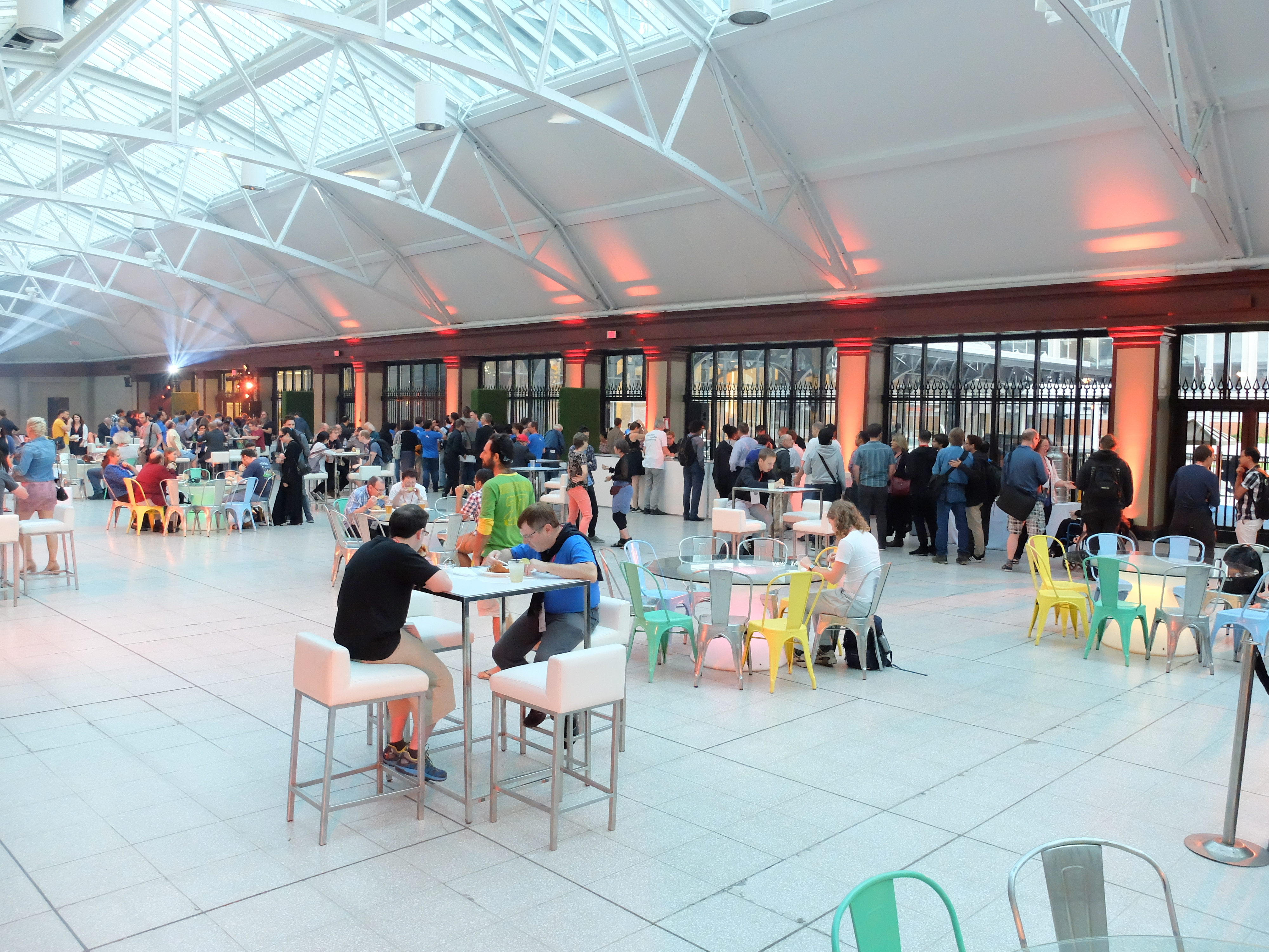 Wikimania, Montréal.